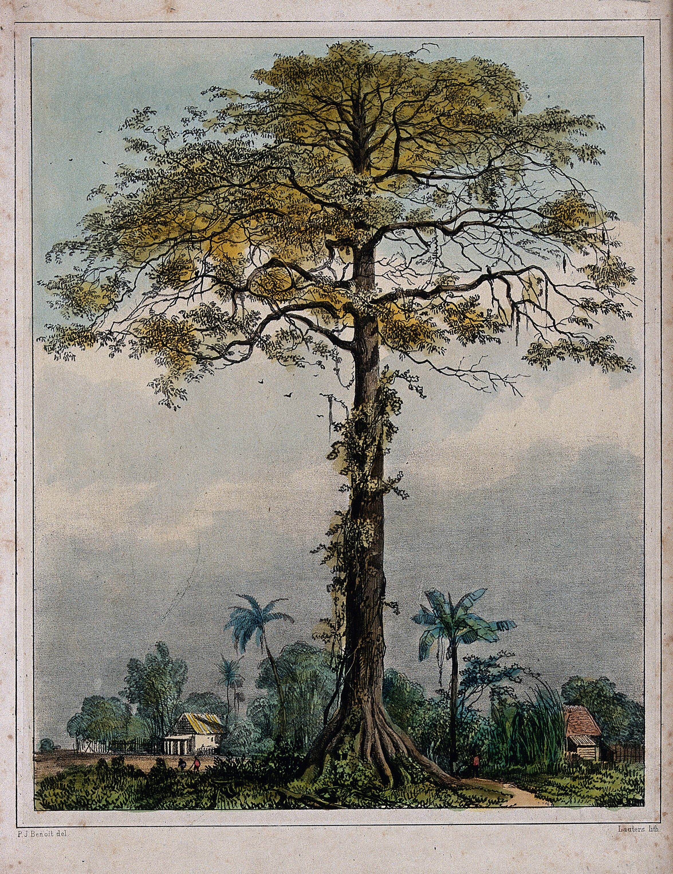 Kapok or silk cotton tree (Ceiba pentandra) growing by a village in Surinam. Coloured lithograph by P. Lauters, c. 1839, after P. J. Benoit. Iconographic Collections Keywords: Pierre-Jacques Benoit; Paul Lauters